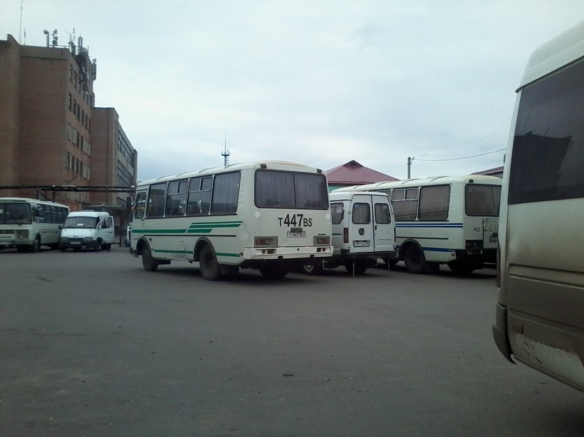 Петропавловский автовокзал